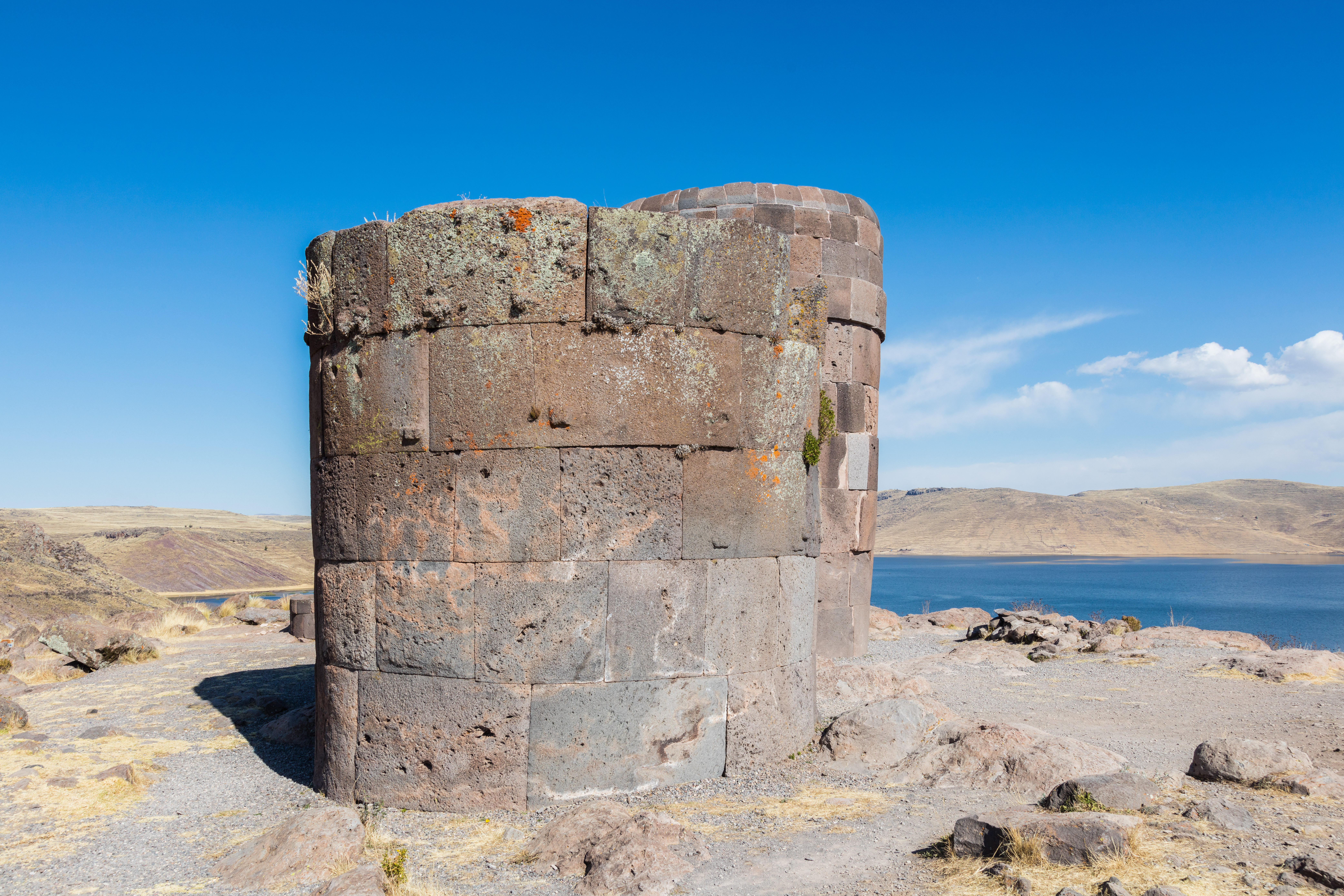 Chullpa funerary tower, Sillustani, Peru